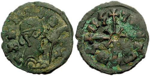 Coin of the Axumite king Wazana, around AD 525 - 550